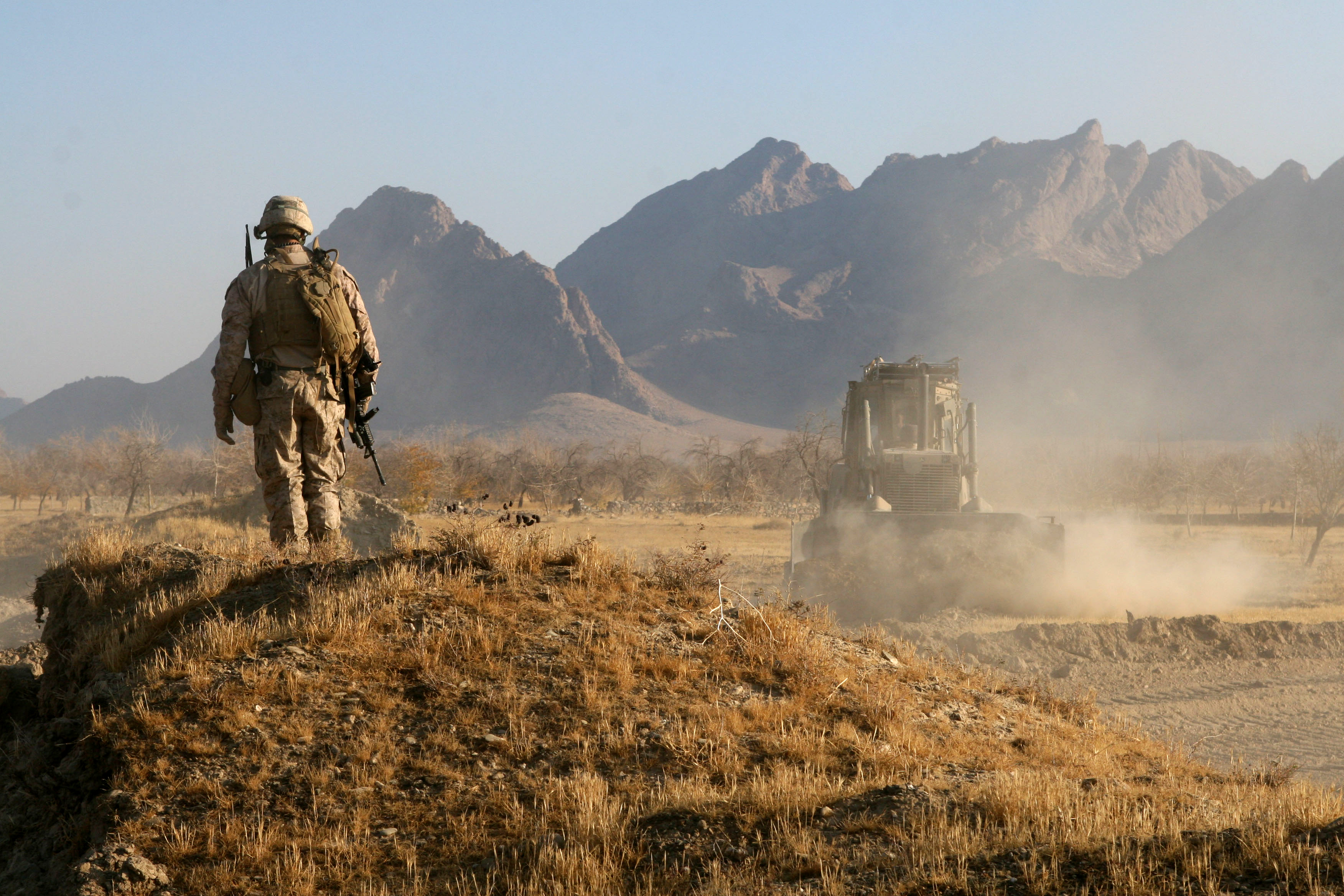 A Marine with 2nd Combat Engineer Battalion, conducts combat operations in Now Zad, Afghanistan, during Operation Cobra's Anger, December 4th